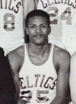 The 1959-60 Boston Celtics team that won its 3rd NBA title.